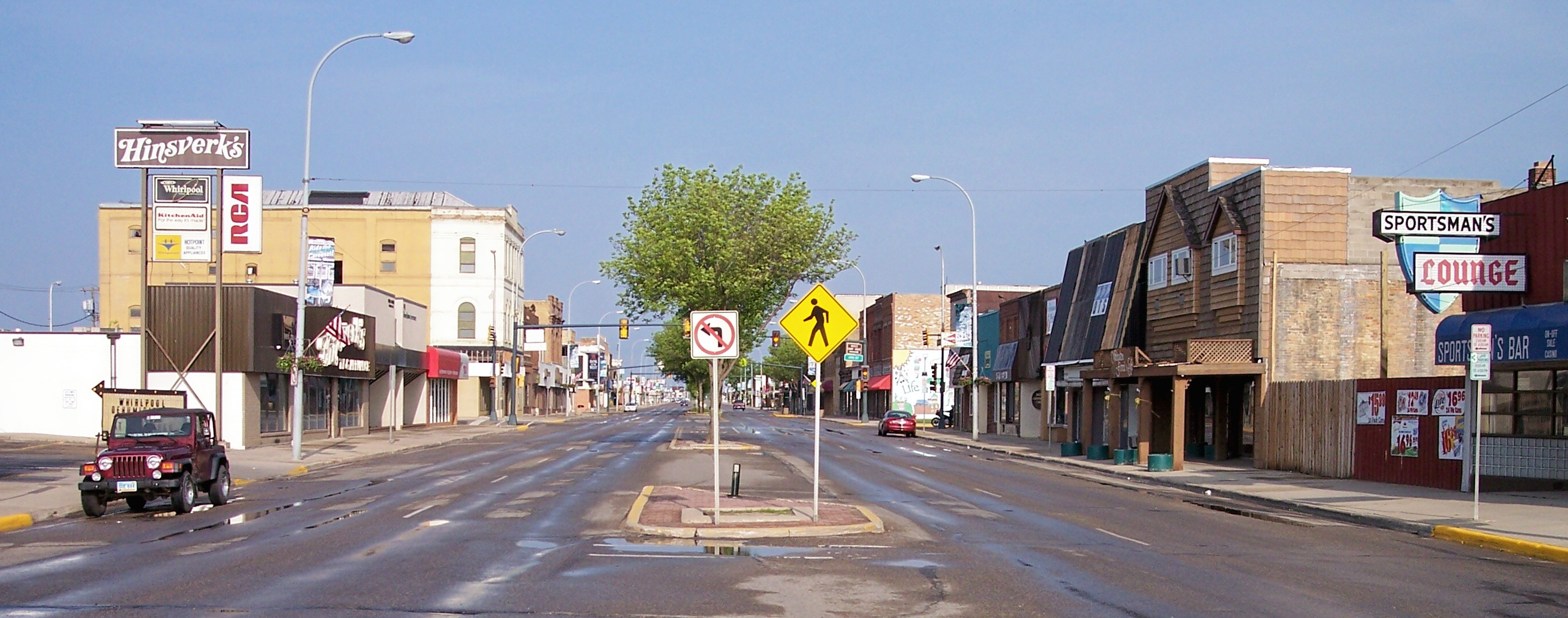 Dakota Avenue (North Dakota Highway 13) in downtown Wahpeton, North Dakota